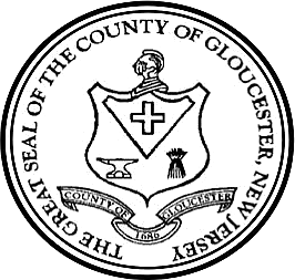 The official seal of Gloucester County, New Jersey, adopted in July 1960.